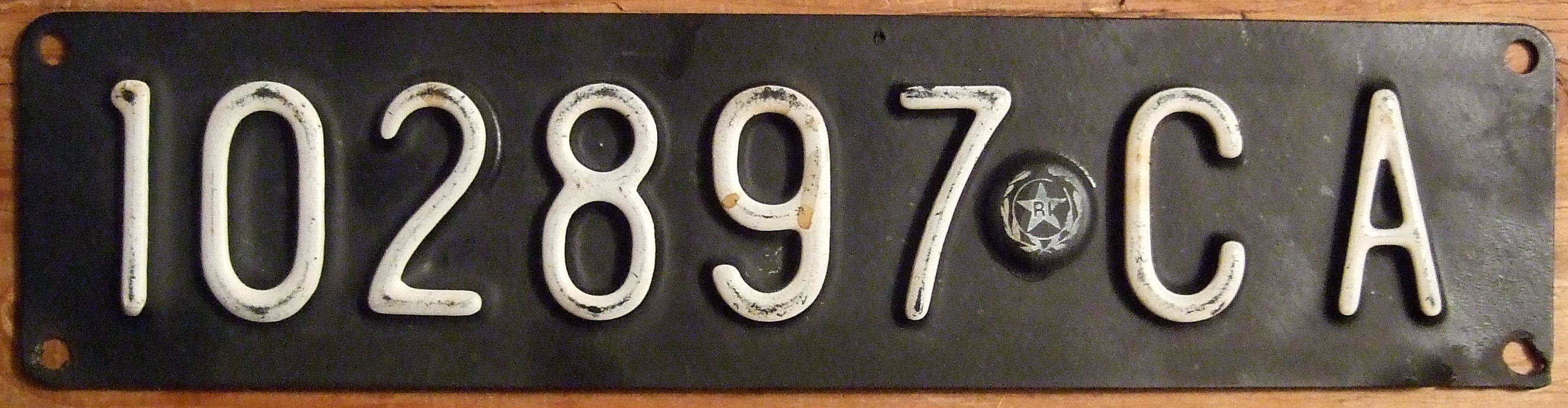 This small sized Italian license plate was used on the front of autos. "CA" denotes Caglari the city of issue the capital of Sardania. After Sicily, Sardania is the second largest island in the Mediterranean Sea. This plate is made of a thick plastic. These plates had a tendency to break at the bolt holes due to vibration of the auto. This one is intact.